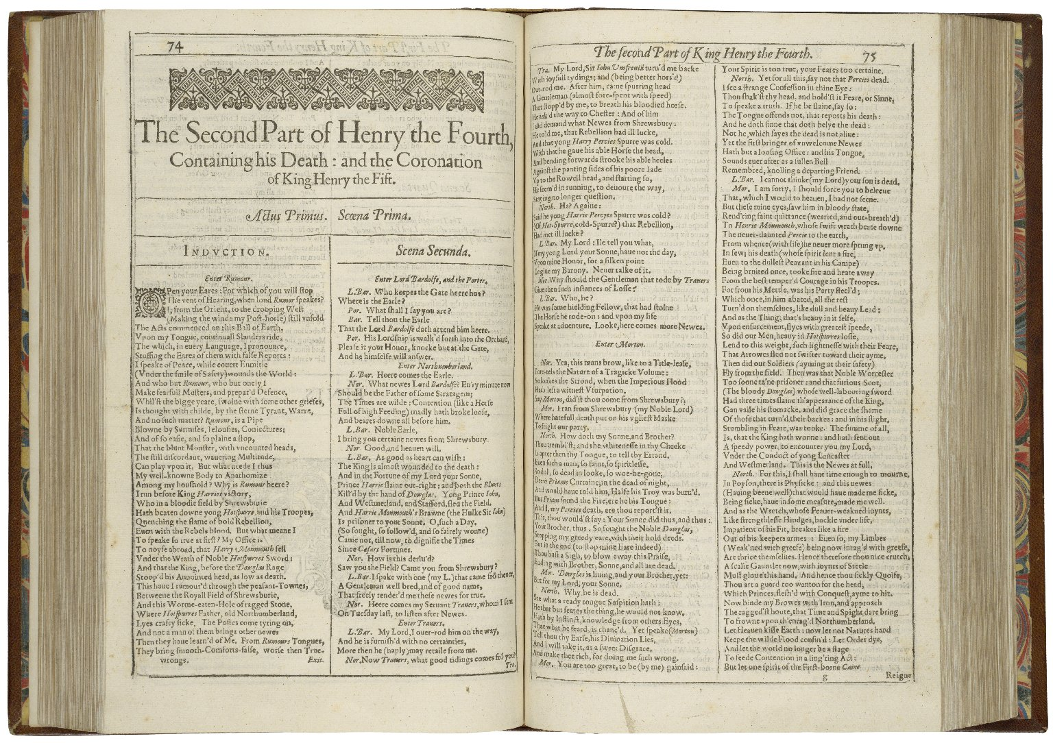 The first page of Shakespeare's Henry the Fourth, Part II, printed in the First Folio of 1623